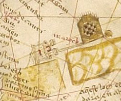 Depiction of the city of Marrakesh (Maroch), detail from the 1413 portolan chart of Mecia de Viladestes.